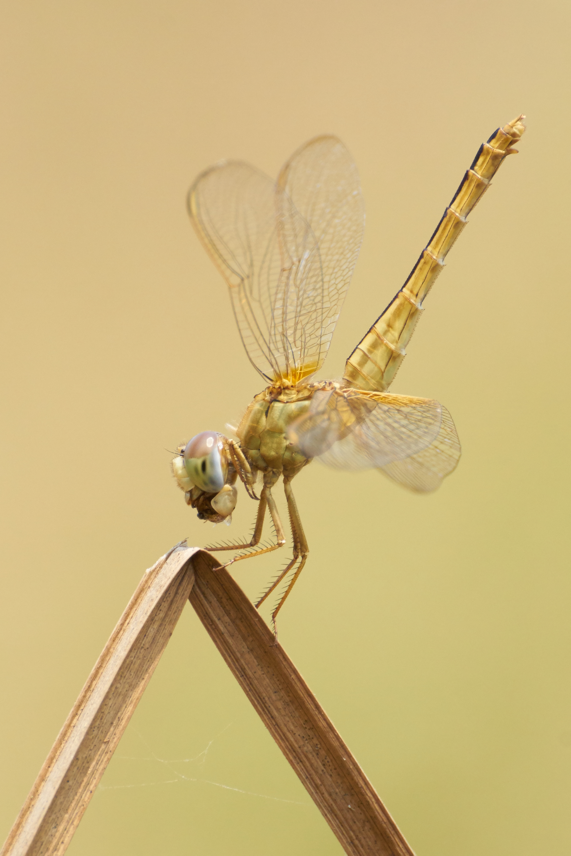 Crocothemis servilia, Ruddy Marsh Skimmer (Scarlet Skimmer), is a species of dragonfly of the family Libellulidae, native to East and Southeast Asia.